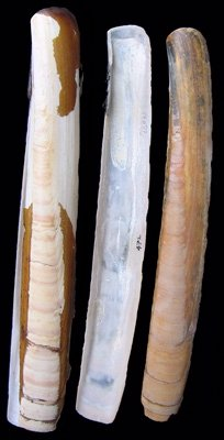 Ensis arcuatus; Marine bivalved shell from the North Sea.